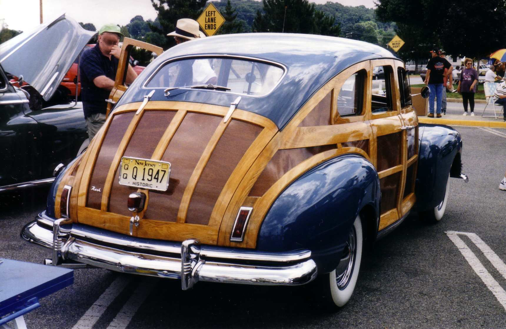 1947 Nash Suburban Ambassador, "wodie" four-door Slipstream sedan.